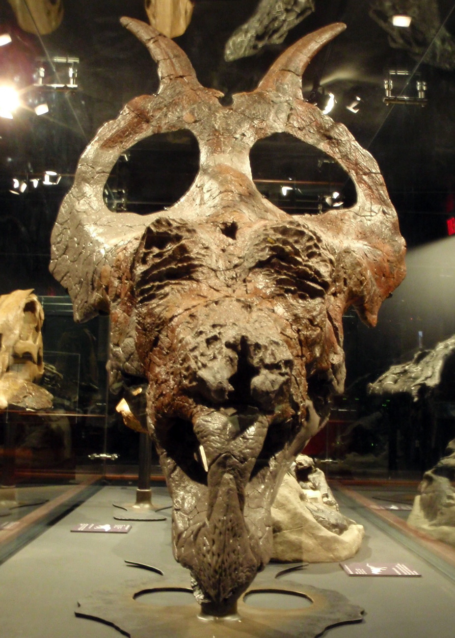 Achelousaurus horneri holotype MOR 485 Discoverer: Sid Hofsteader, 1987 Collector: C. Ancell, and the 1987 Field Crew Land: PVT. Glacier County Museum of the Rockies